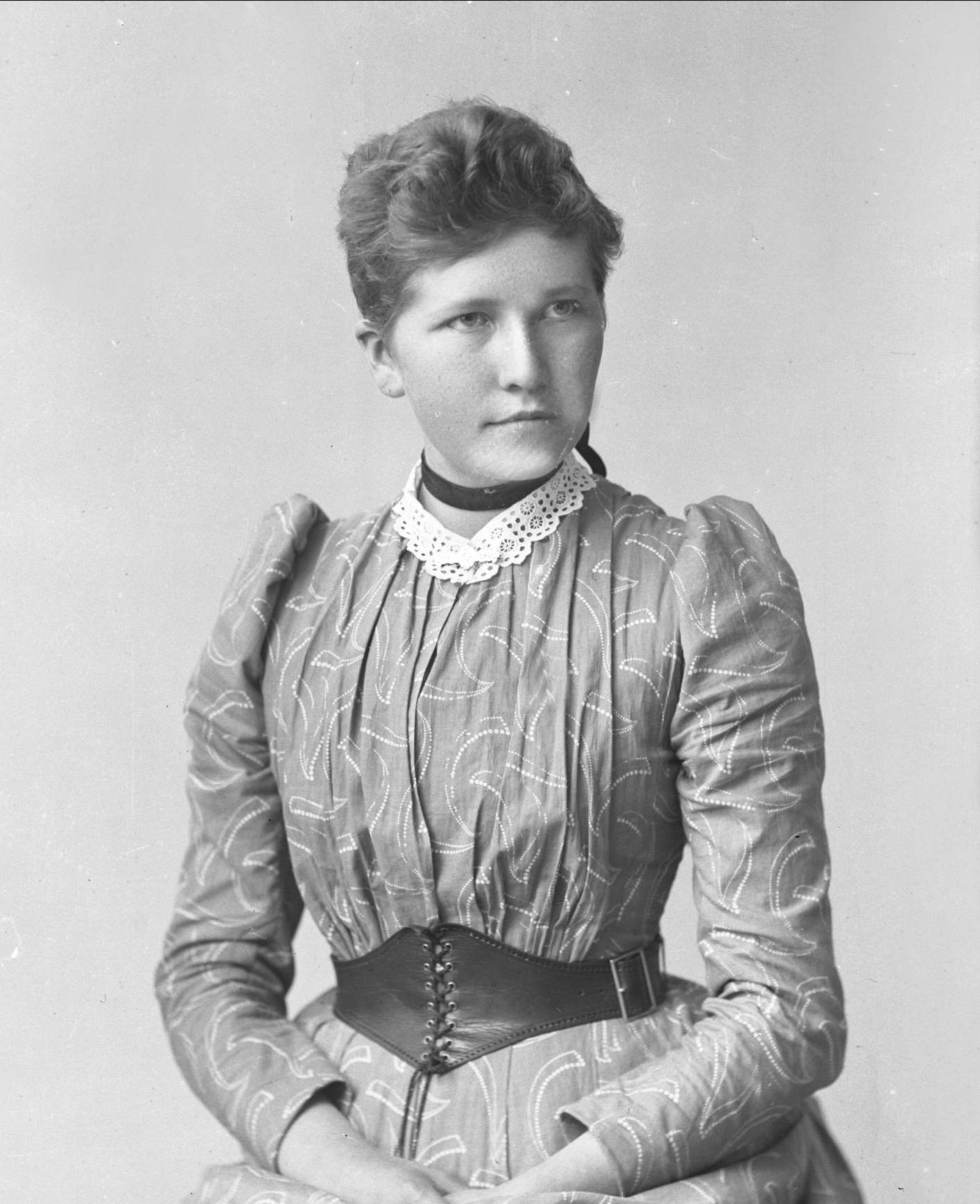 Portrait. Thekla Resvoll by Gustav Borgen.